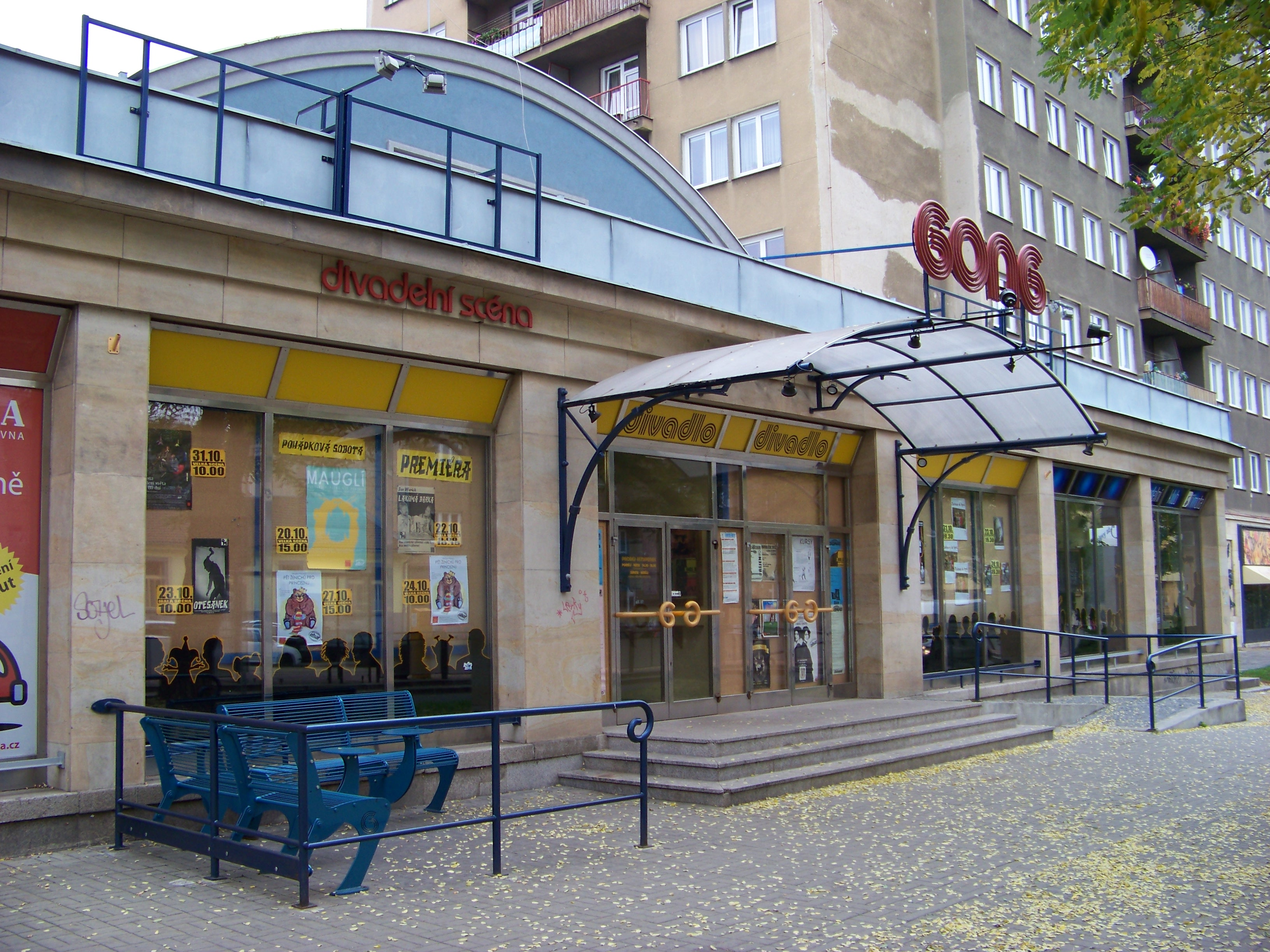 Prague-Libeň, the Czech Republic. Sokolovská 969/191, Gong theatre. - Google Maps - Google Earth